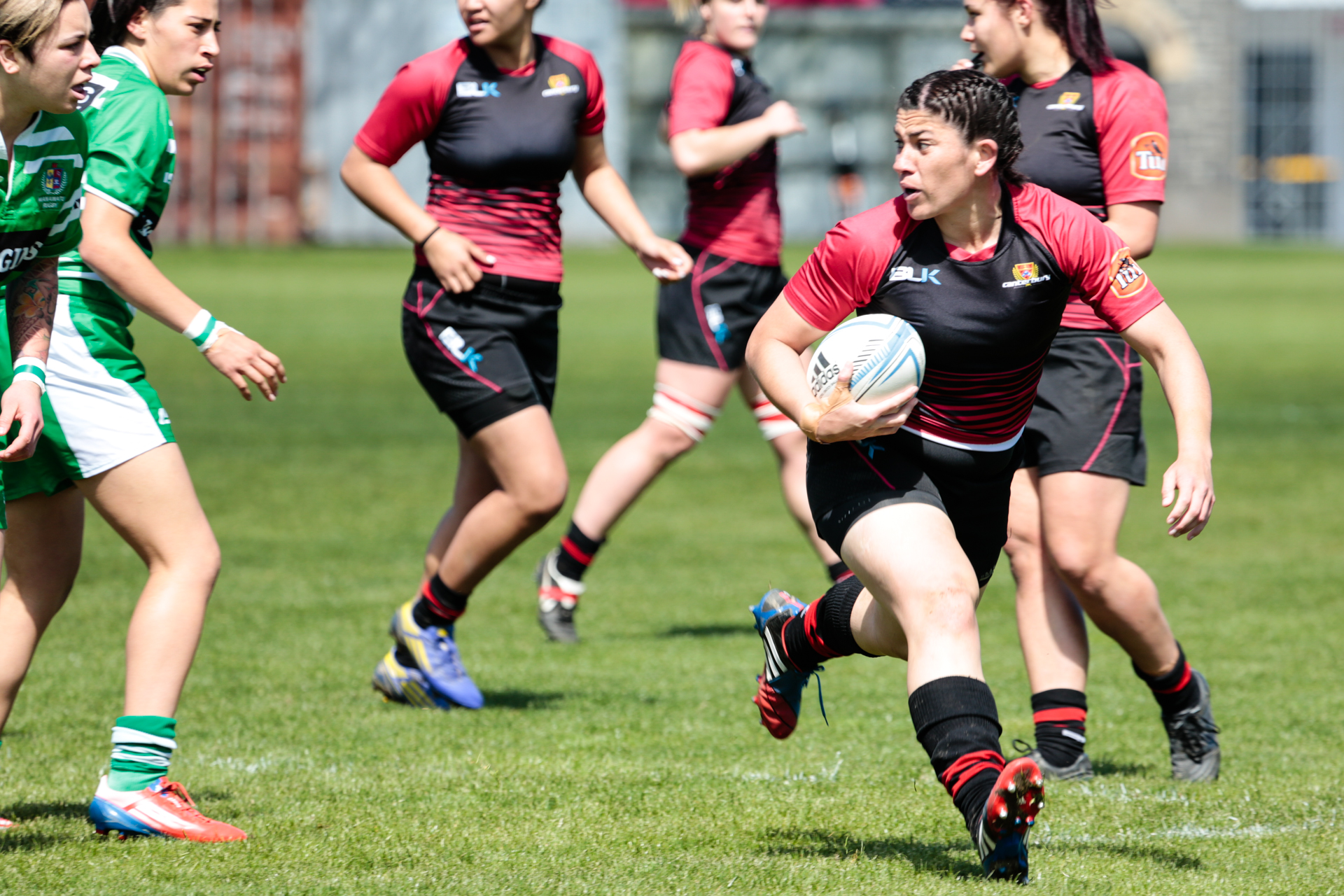 Amiria Rule Women's NPC. Canterbury vs Manawatu 12 Oct 2013 at Rugby Park, Christchurch NZ. Canterbury won 36-18